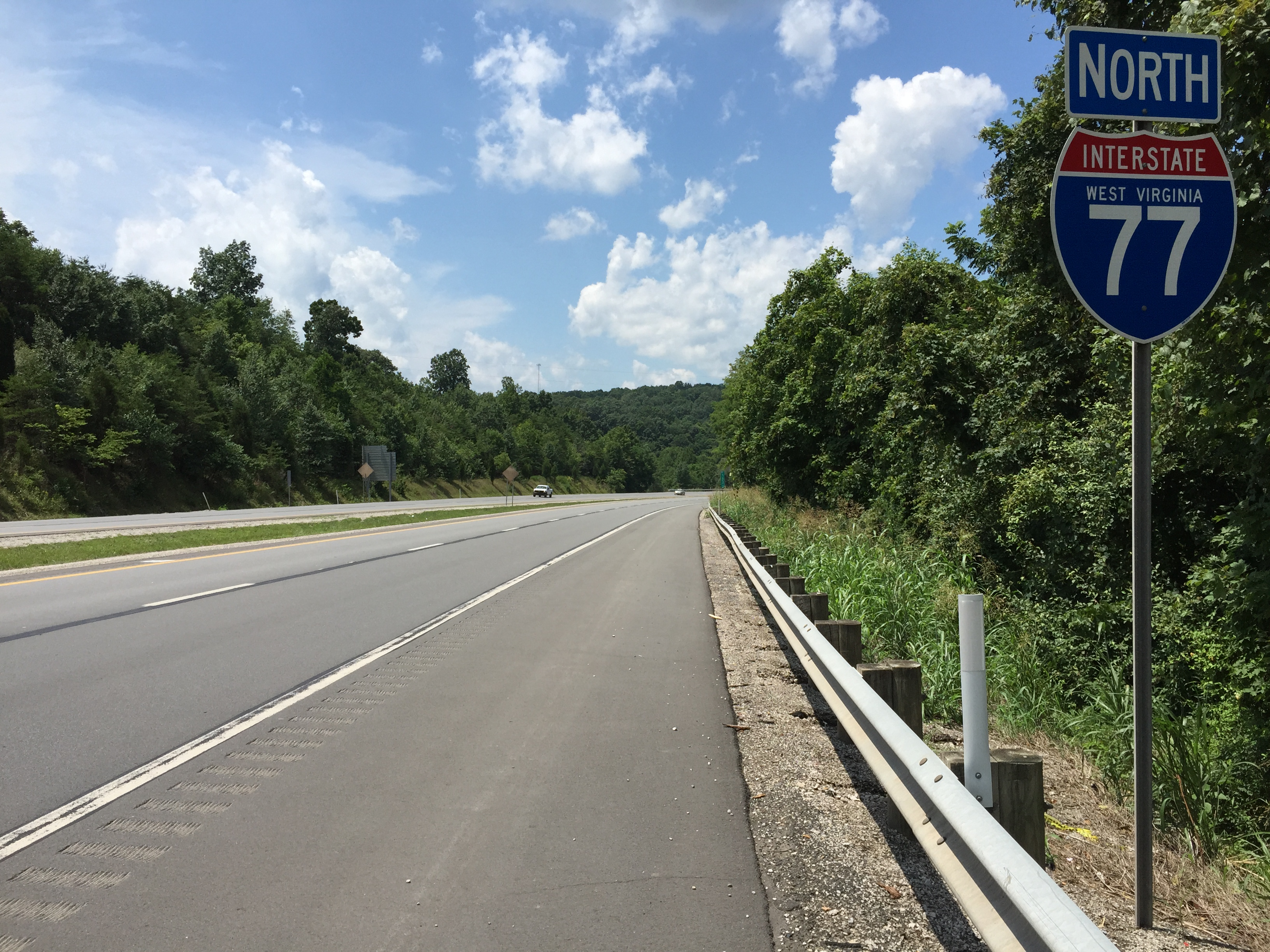 View north along Interstate 77 just north of Exit 132 (Jackson County Route 21, Fairplain, Ripley) in Fairplain, Jackson County, West Virginia